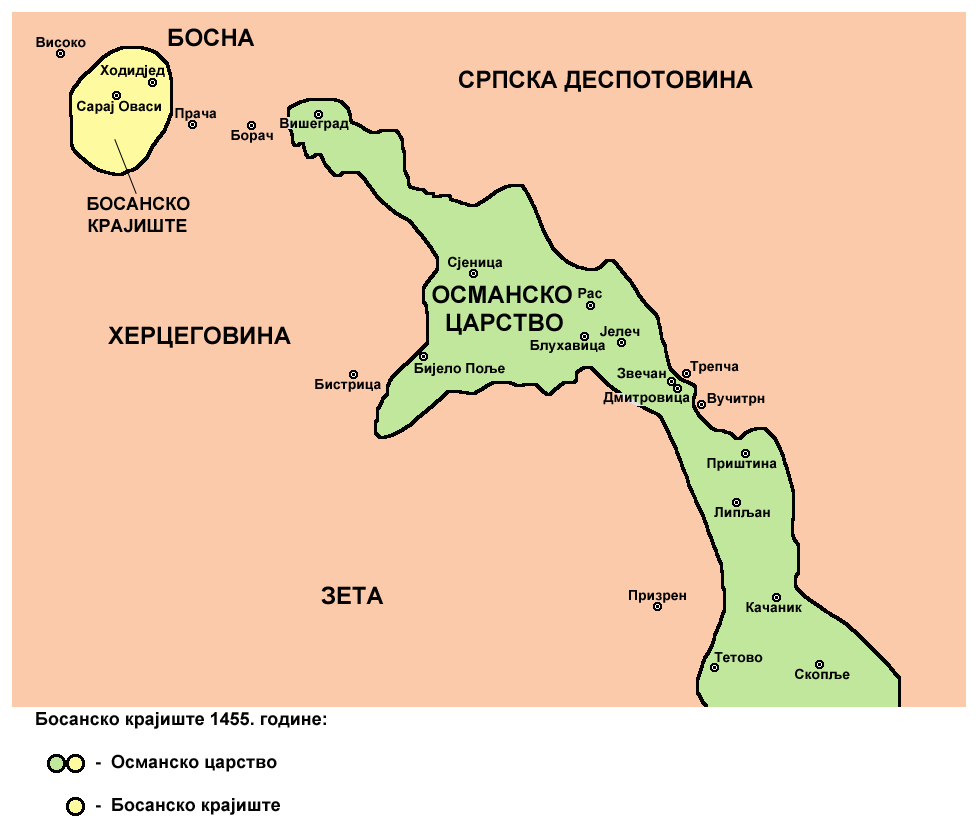 Bosnian Frontier in 1455.